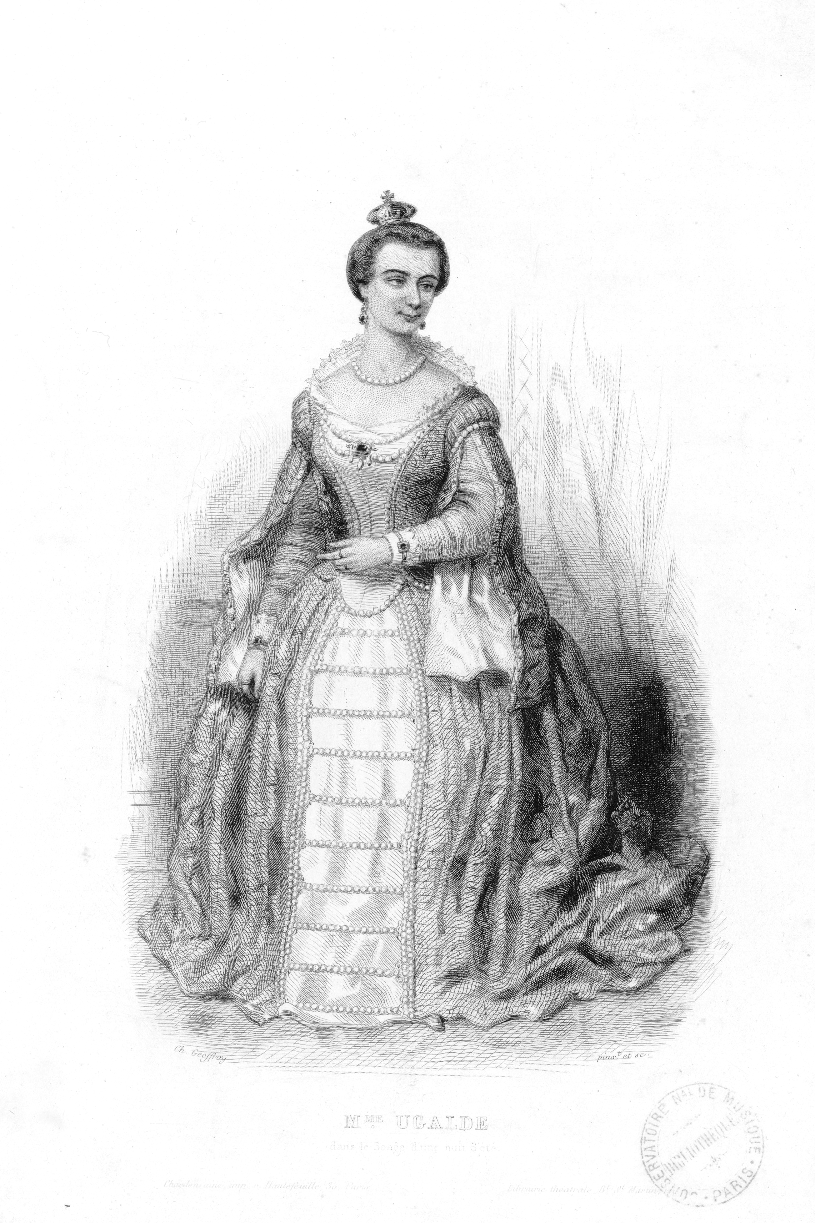 French mezzo-soprano Delphine Ugalde as Elizabeth I in Ambroise Thomas' opéra comique Le songe d'une nuit d'été